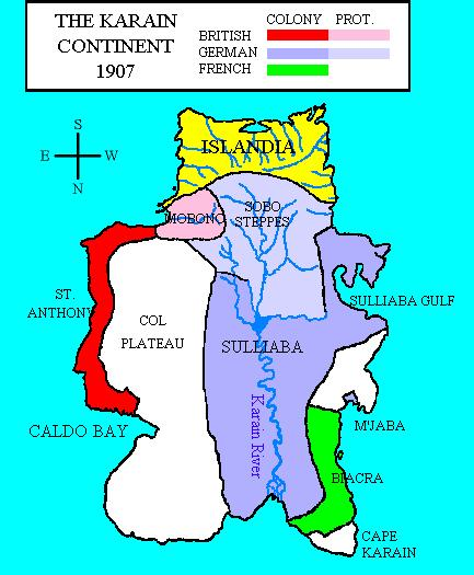 A map of the Karain Semi-Continent based on Austin Tappan Wright's 1942 Utopian novel Islandia. Created by Johnny Pez on 30 March 2006.